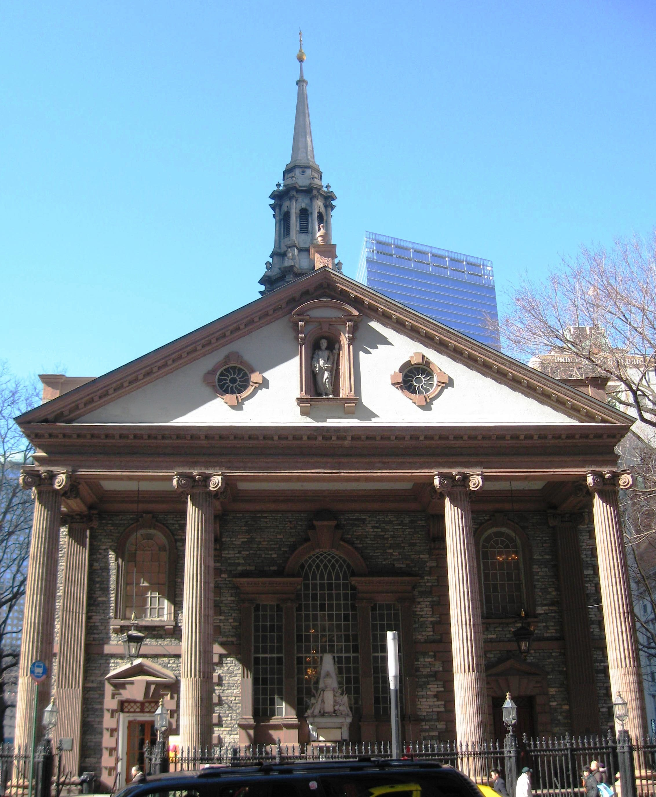 Looking west across Broadway at St Paul's Chapel on a sunny midday.